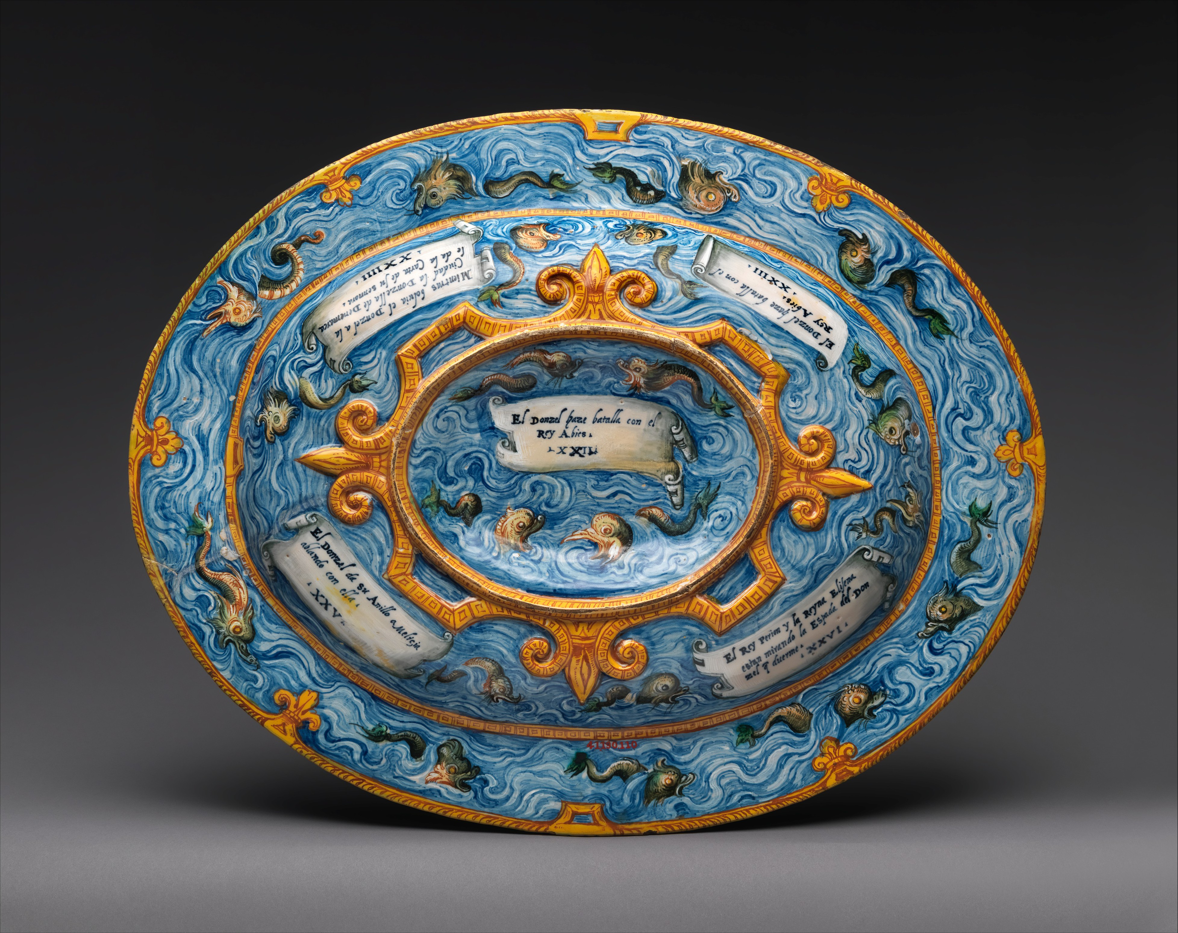 Italian, Urbino or possibly Turin; Basin or dish; Ceramics-Pottery